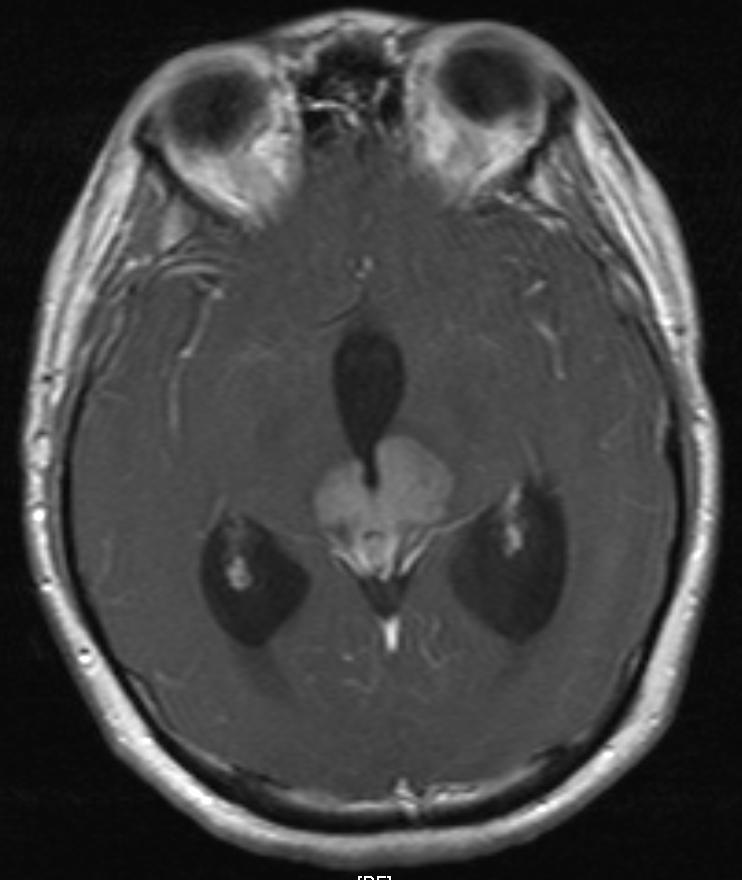 CNS Germinoma, MRI axial image with contrast.